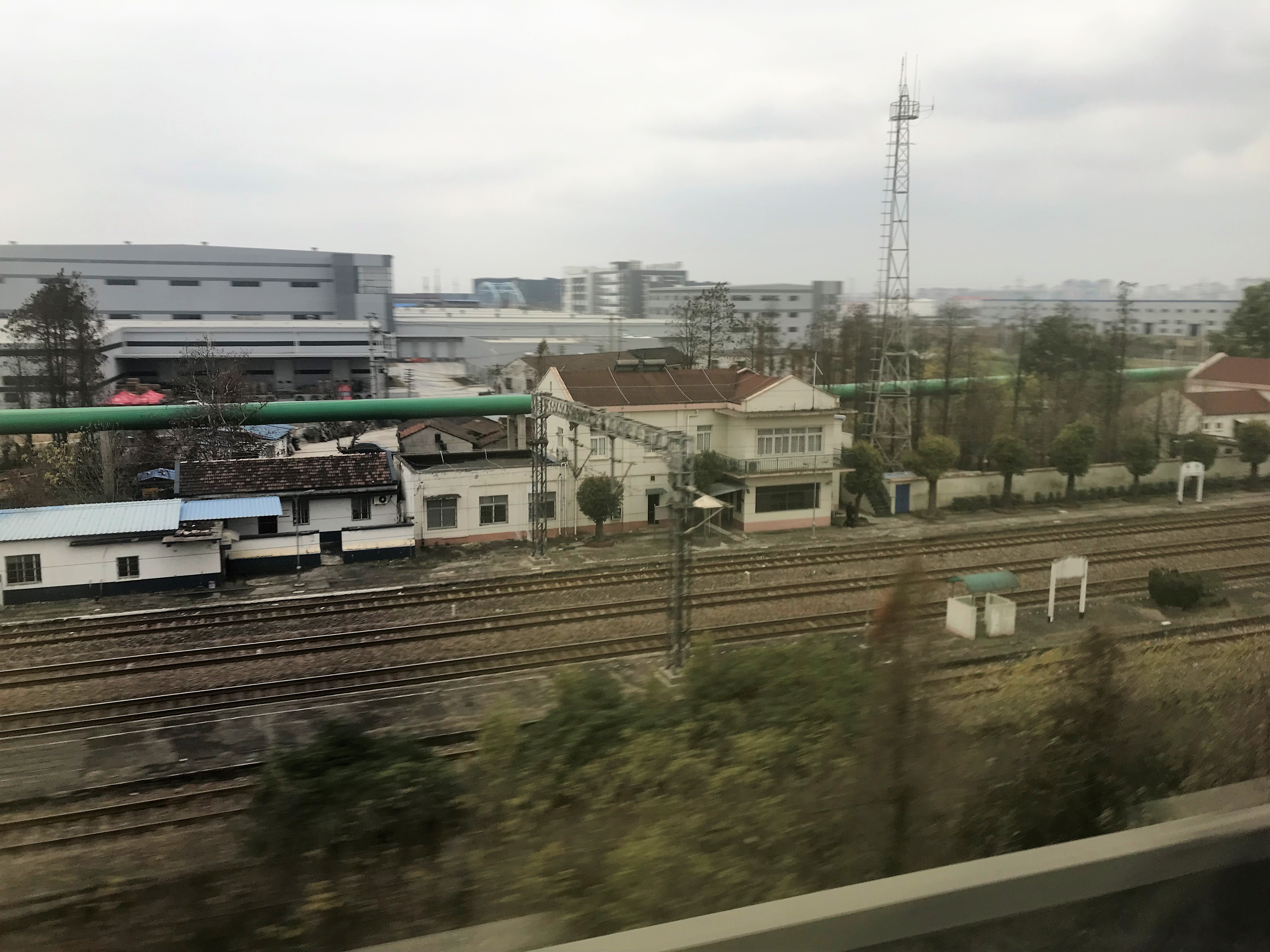 201812 Shuofang Station